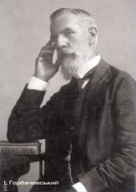 Ukrainian biochemist Ivan Jakovlevich Gorbachevsky